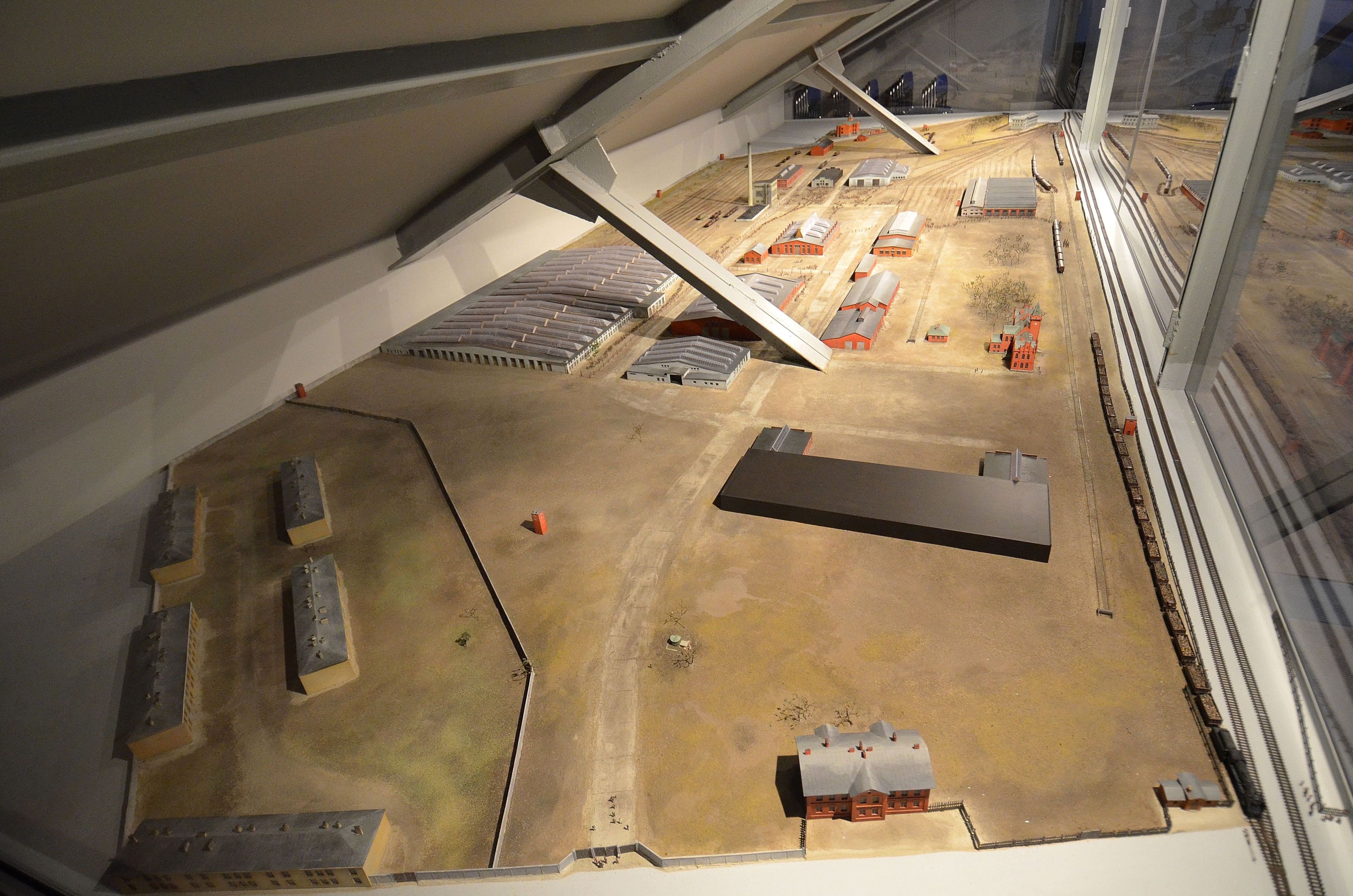 Dulag 121 Museum in Pruszków